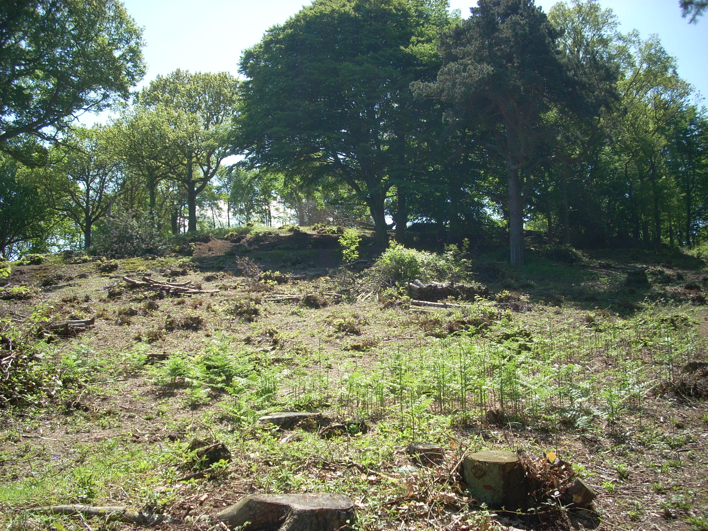 Bigbury Camp, an Iron Age hillfort near Canterbury, Kent, England.